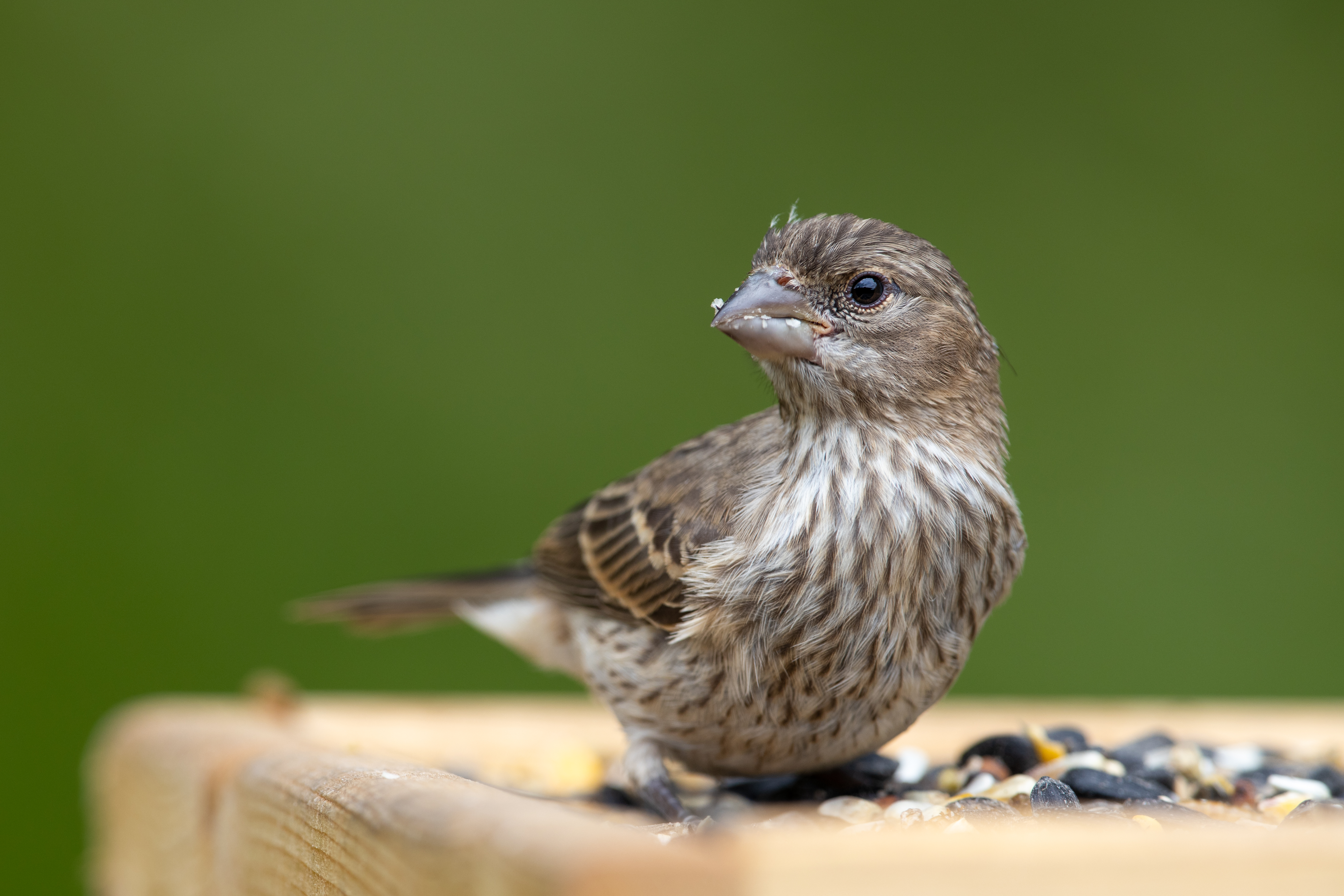 House finch (female), shot in Franklin, TN